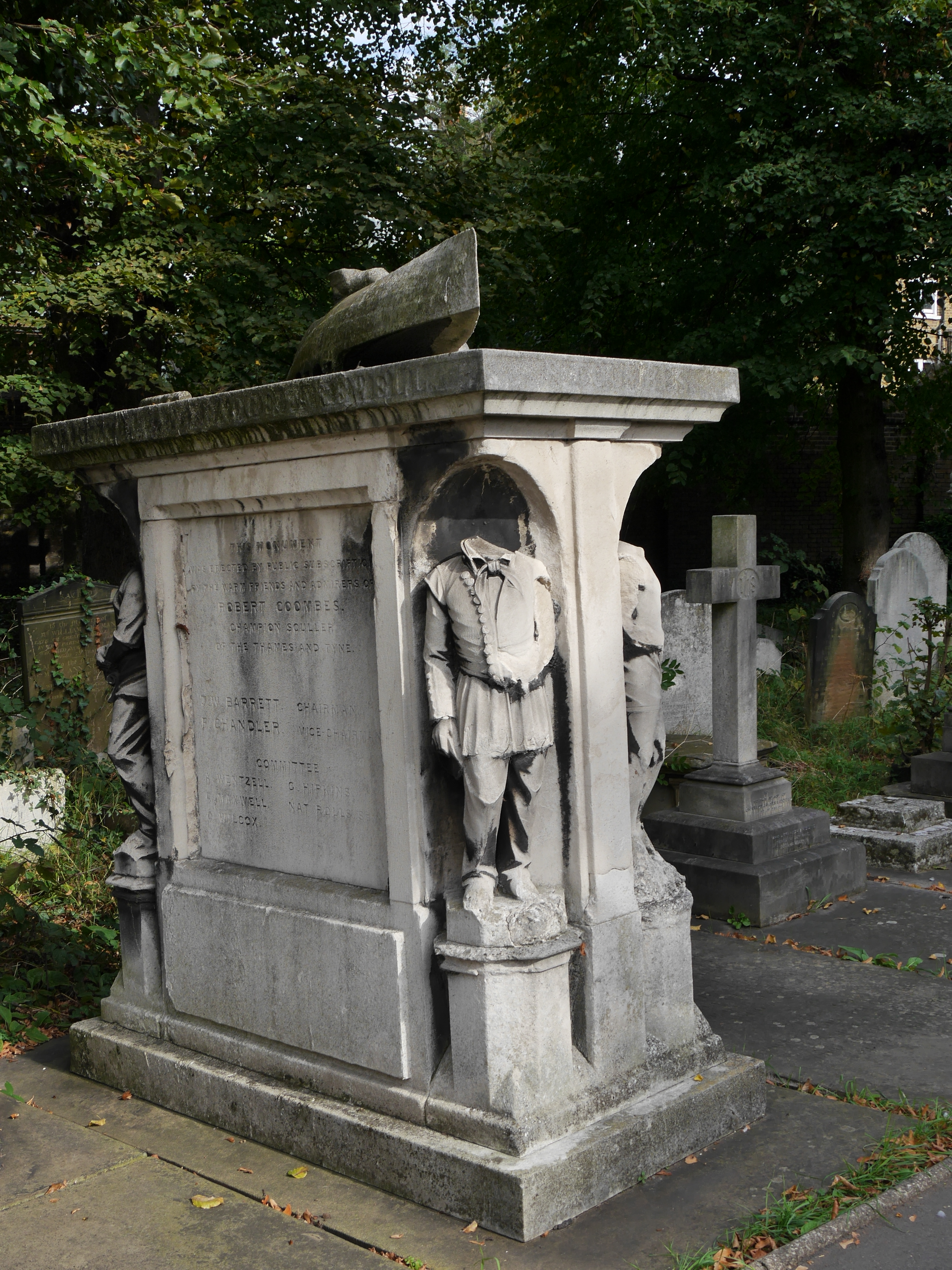 Brompton Cemetery, London